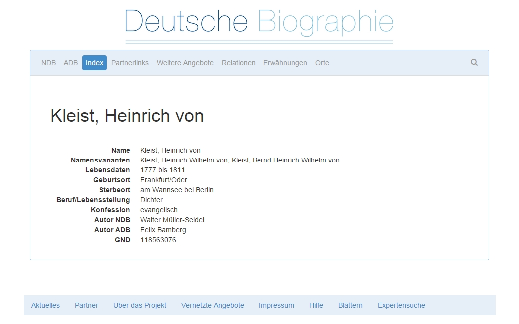 Deutsche Biographie: Screenshot of the website of the German Biography (Browser: Crome).